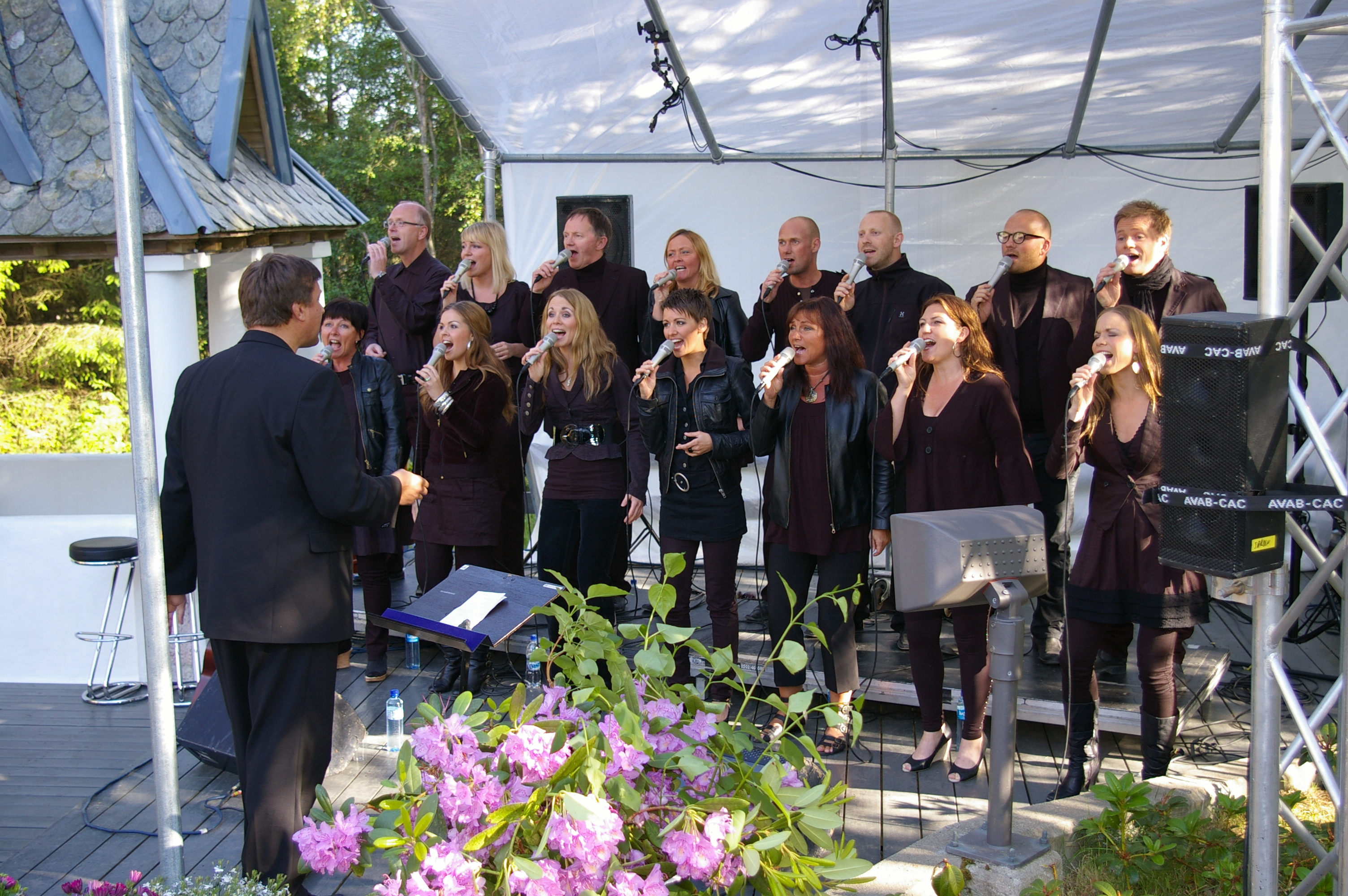 Oslo Gospel Choir in concert at Mizpa, Askøy, Norway